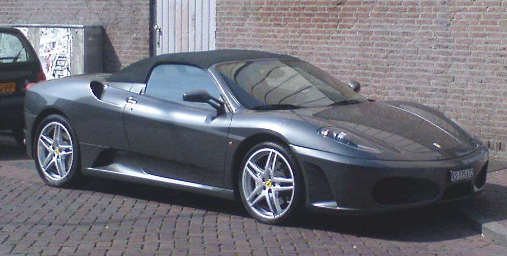 Ferrari F430 Spider